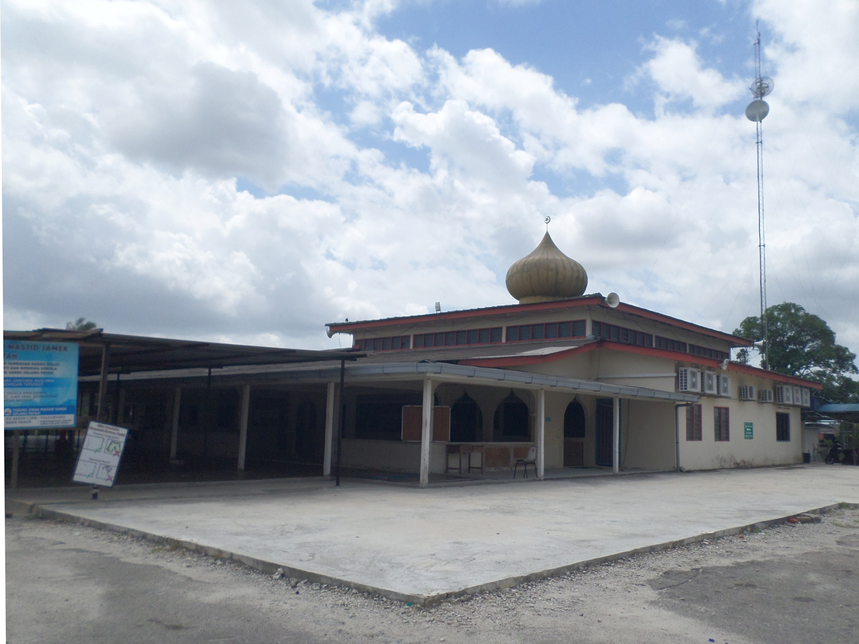 Gelang Patah Jamek Mosque, Gelang Patah, Johor Bahru, Johor, Malaysia